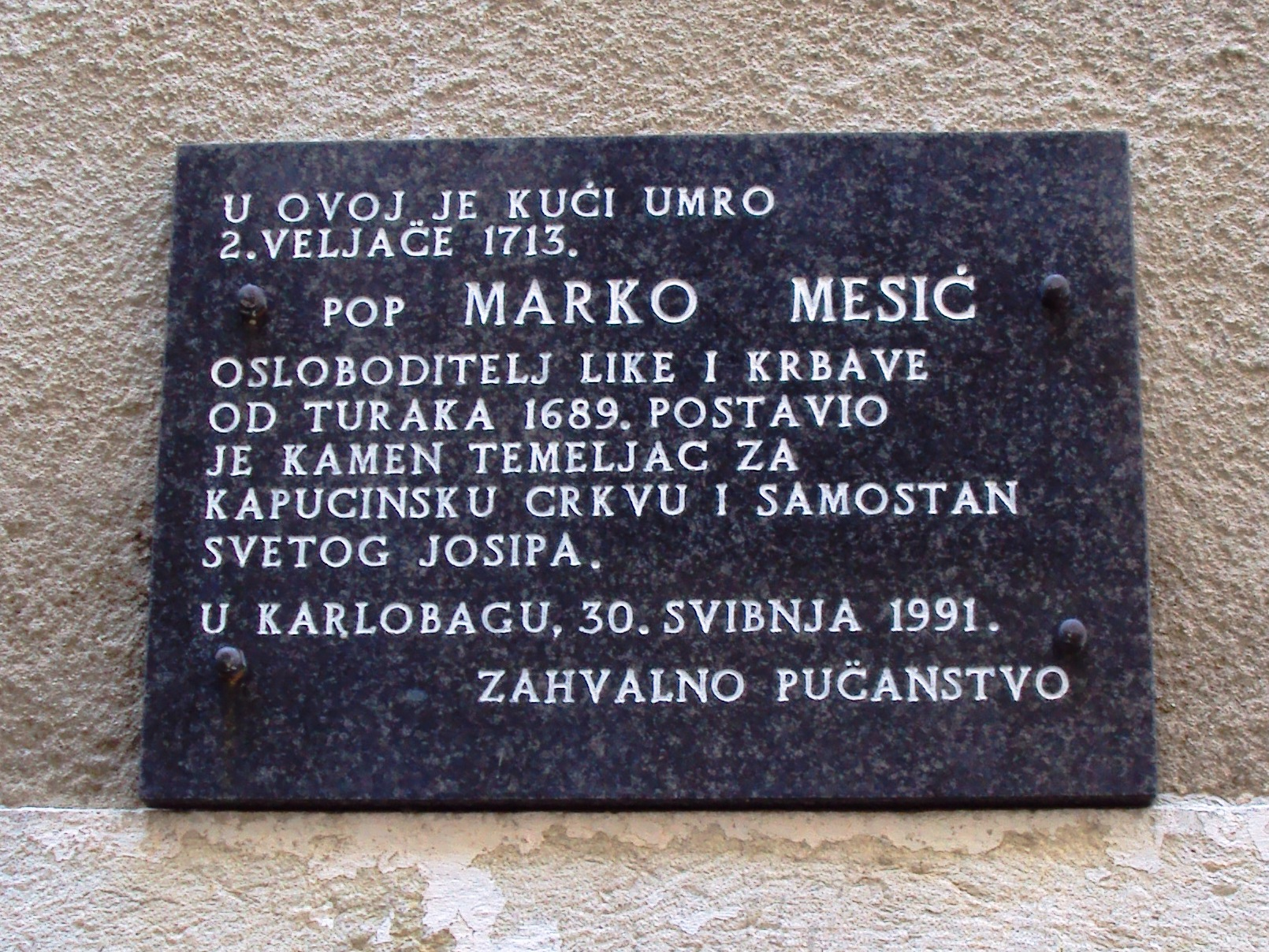 Memory of the priest Marko Mesić in Karlobag, Croatia